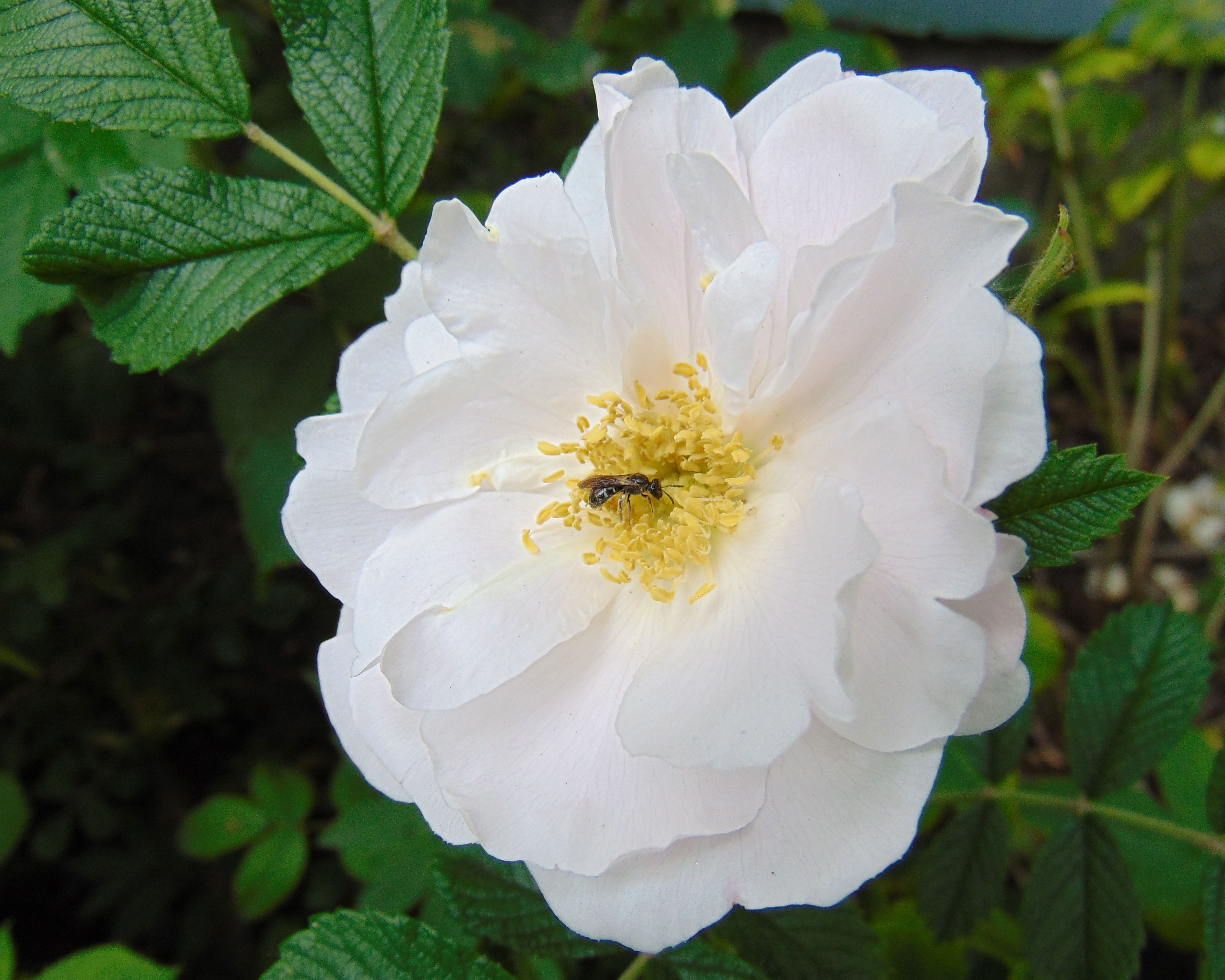 Rosa 'Henry Hudson' with insect friend, Ceratina sp., Toronto, Canada